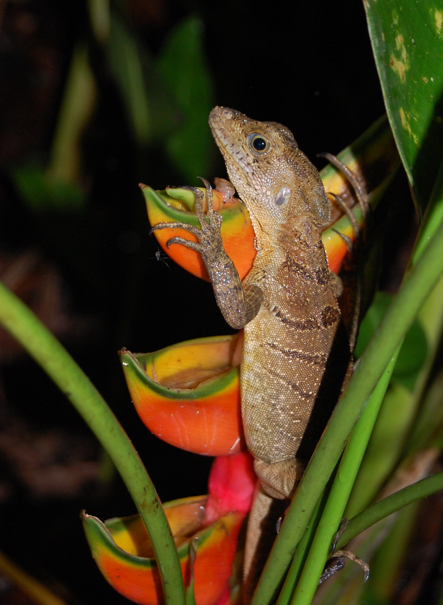 Female common basilisk (Basiliscus basiliscus) at night in the Osa Peninsula, Costa Rica. Females are generally 135g-194g they weigh half as much as males.